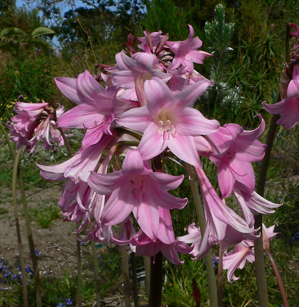 Photo of Amaryllis belladonna at the San Francisco Botanical Garden